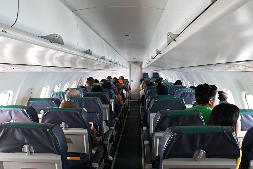 5J 136 flight Cebu - Caticlan (Boracay). If you seat on right side you can see well Boracay overview. First flight date of the plane - 05/09/2008.